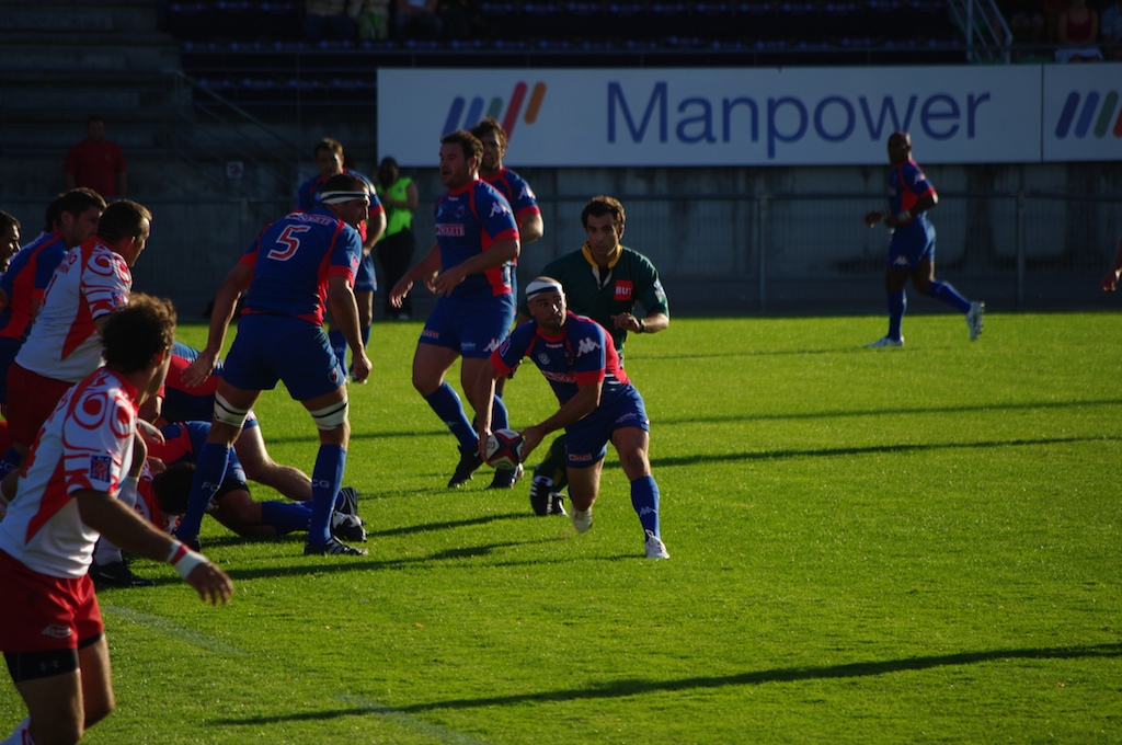 Australian scrum half Sam Cordingley playing for Football Club Grenoble (french second division).